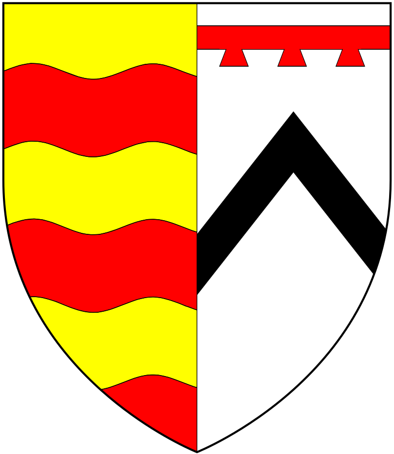 Arms of Basset of Tehidy, Cornwall impaling Prideaux of Netherton, Devon